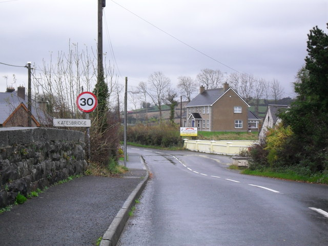 Entering Katesbridge. The bridge in the foreground is not the one belonging to Kate (that's the River Bann bridge, see 267857). This bridge once carried the Ardbrin Road over the Great Northern Railway (Ireland) [GNR(I)] Knockmore Jct. to Castlewellan railway line - closed in 1955.